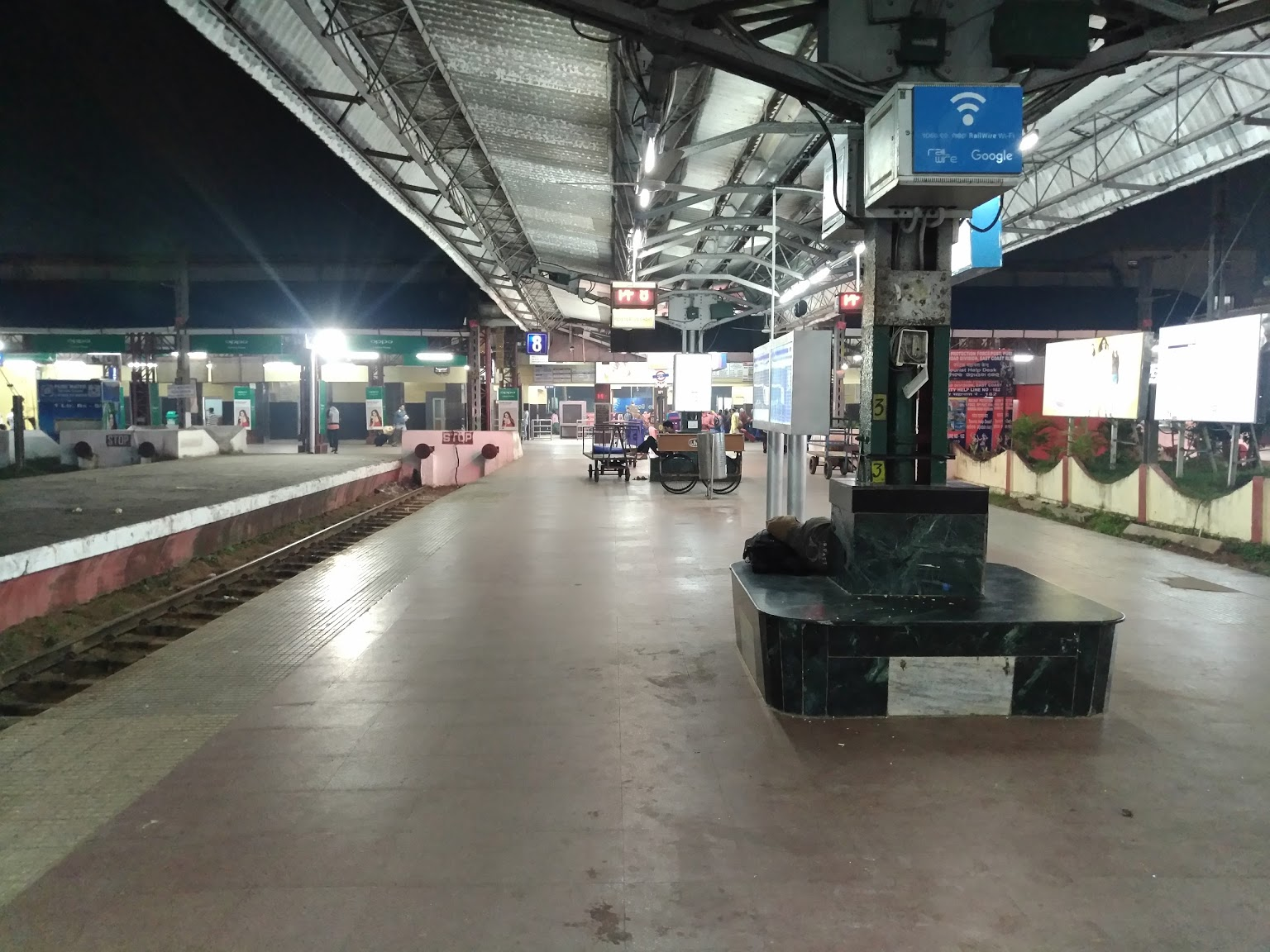 This is the Picture of PURI Railway Station